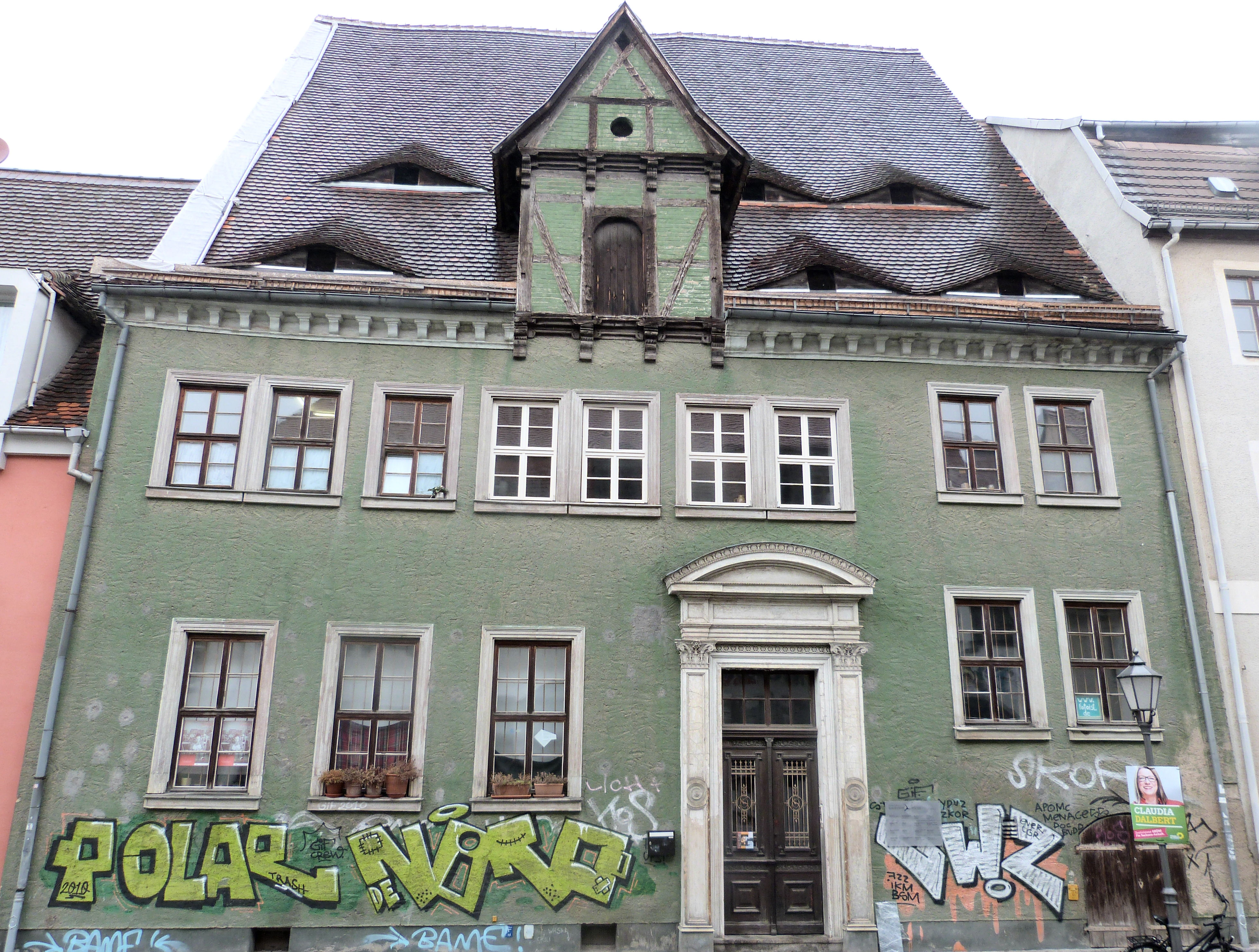 House No. 27 Alter Markt, Halle (Saale), former inn Goldener Pflug